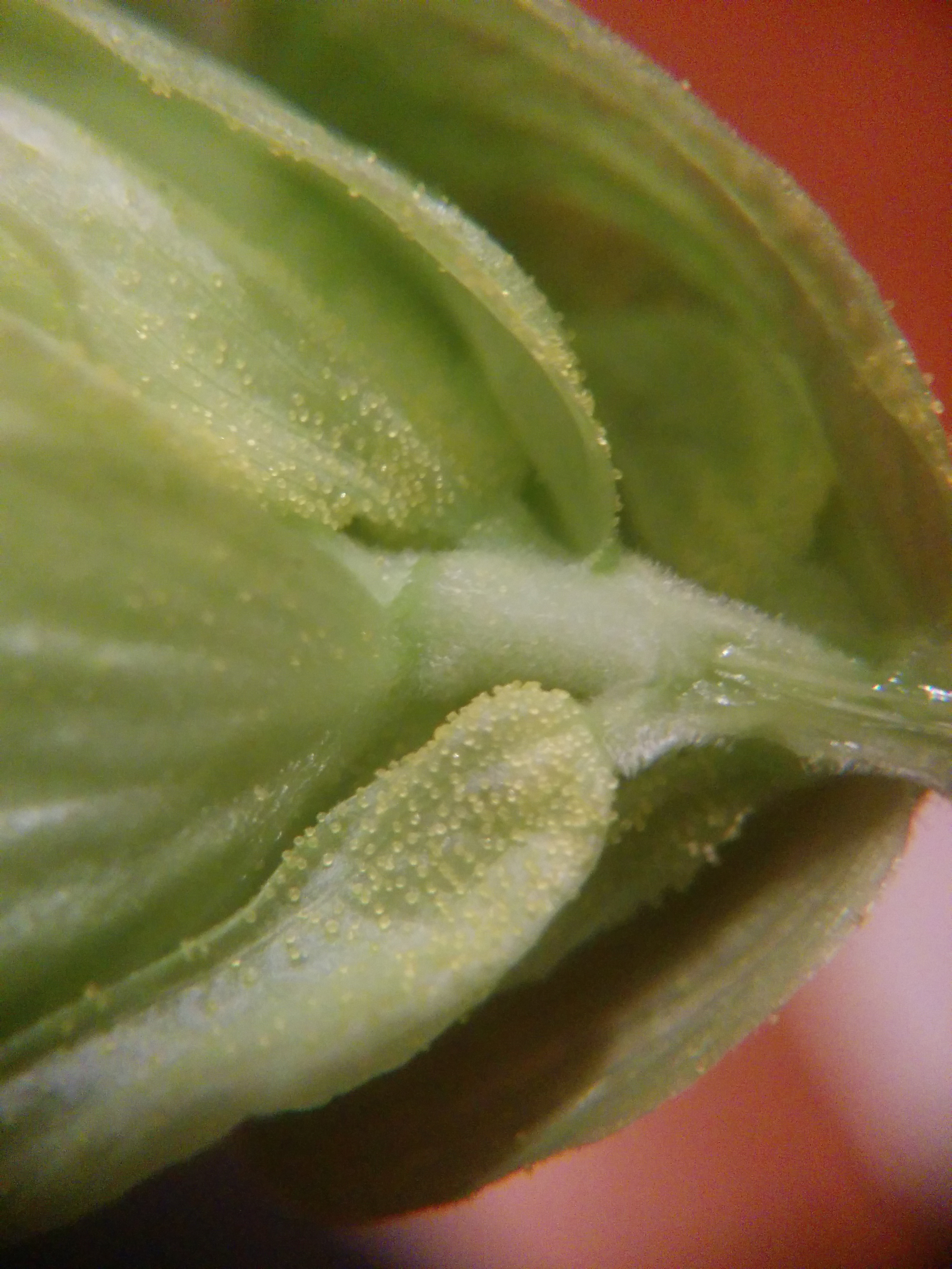 Macro shot of lupulin on a fresh hops cone.